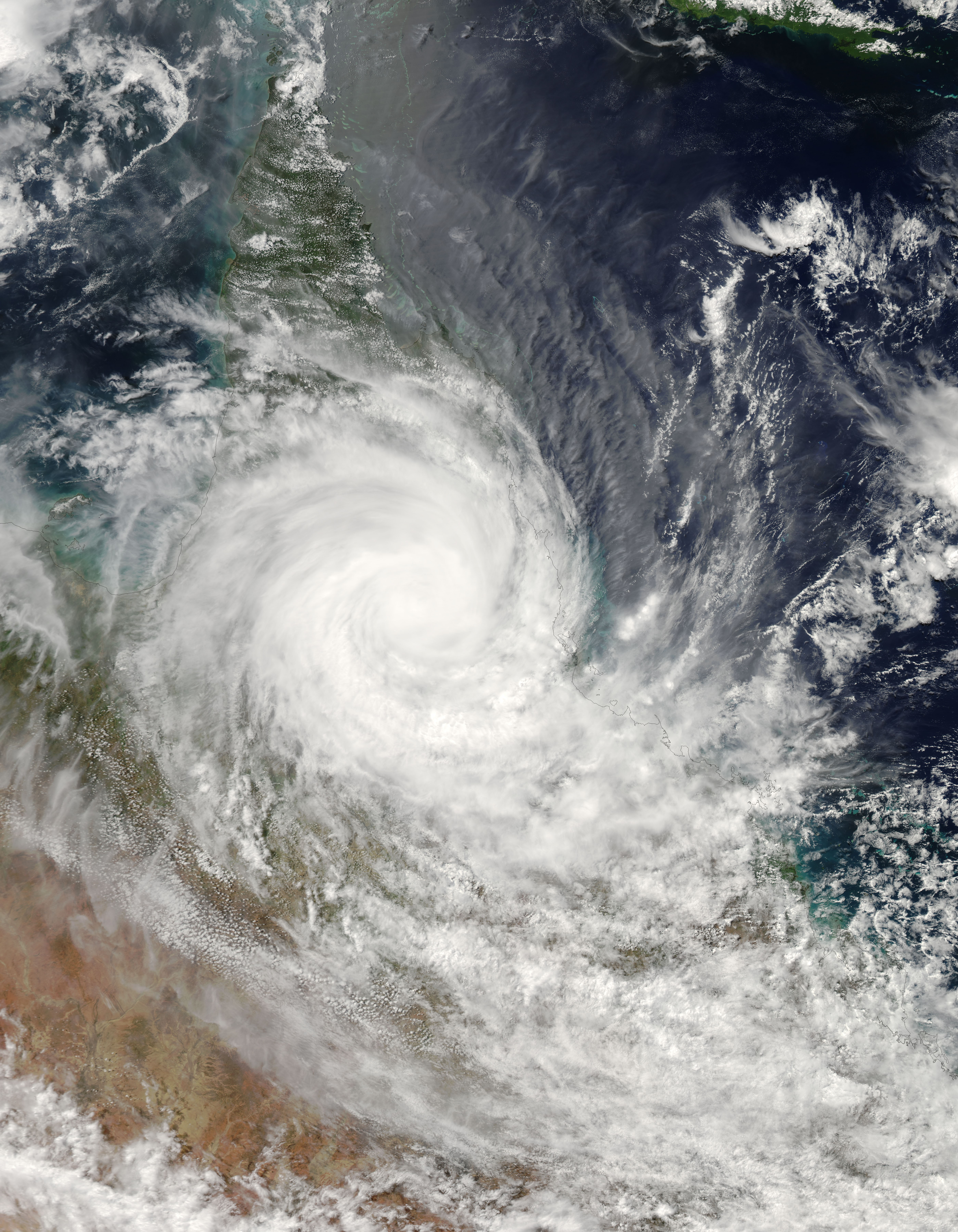 Tropical Cyclone Larry formed off the northeastern coast of Australia on March 18, 2006. The cyclone gained power rapidly and came ashore on Queensland’s eastern coastline, where it hammered beaches with heavy surf, tore roofs off buildings, and perhaps most destructively, flattened trees in banana plantations over a wide area. The Australian Broadcasting Corporation reported early estimates that as much as 90 percent of the Australian banana crop may have been lost in this single storm. Since many trees have been destroyed, it may be many years before the banana industry recovers. When the Moderate Resolution Imaging Spectroradiometer (MODIS) on the Aqua satellite observed the storm at 2:55 p.m. Australian Eastern Daylight Savings Time (03:55 UTC) on March 20, 2006, Tropical Cyclone Larry had come well ashore onto the mainland, losing much of its power as it traveled westward. At the time of this image, Larry had peak winds of around 140 kilometers per hour (85 miles per hour), significantly less strength than it had possessed just one day before. The high-resolution image provided above is provided at the full MODIS spatial resolution (level of detail) of 250 meters per pixel. The MODIS Rapid Response System provides this image at additional resolutions.